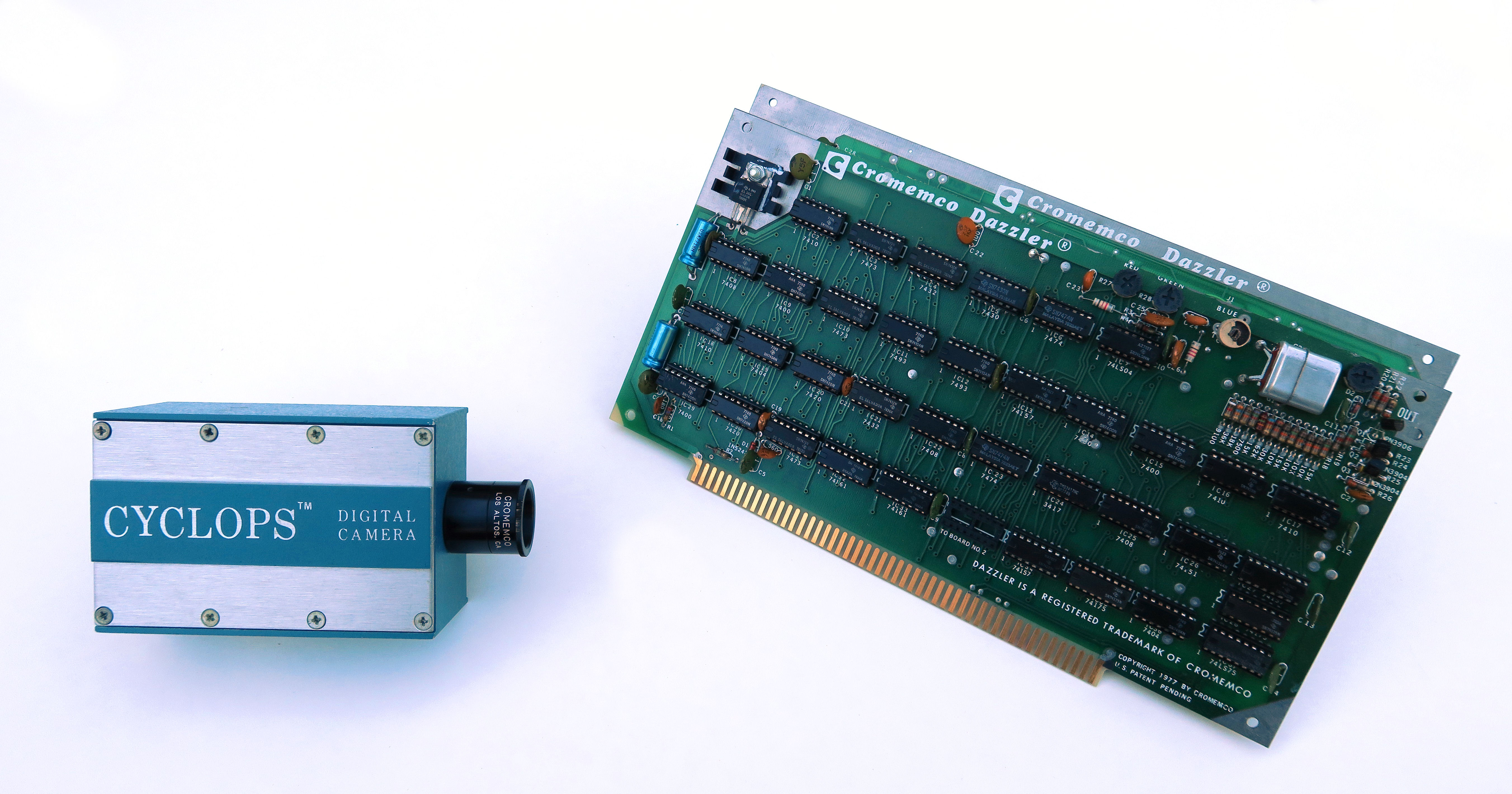 Cromemco Cyclops Digital Camera with Cromemco Dazzler Interface. The Cromemco Cyclops was the first completely digital camera, and the Cromemco Dazzler was the first microcomputer color graphics interface. Both were cover stories in Popular Electronics magazine: the Cyclops in February 1975, and the Dazzler in February 1976. An image captured by the Cyclops could be stored in an S-100 bus microcomputer, and displayed on an ordinary television set using the Dazzler interface.